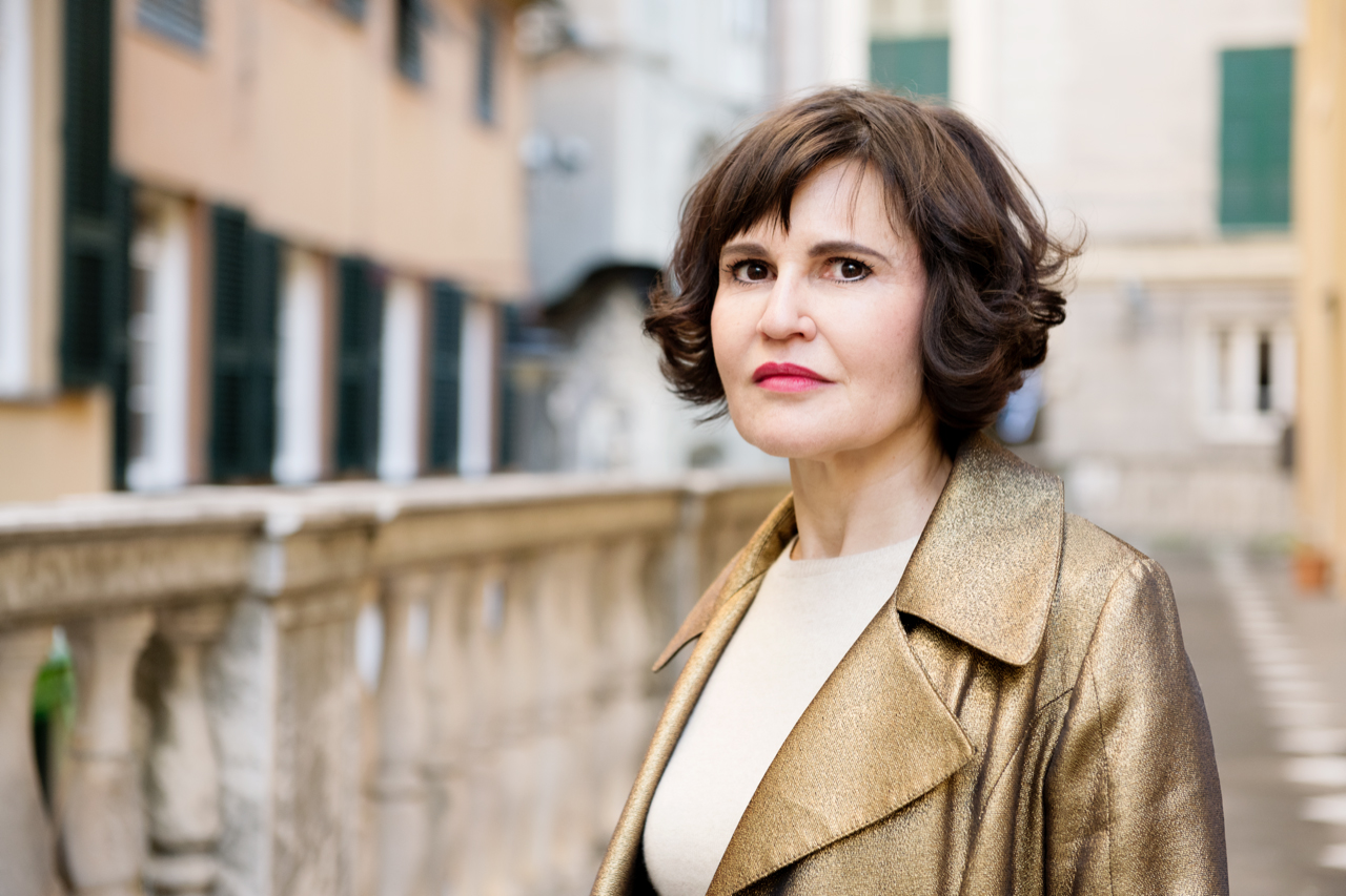 Romana Ganzoni 2019 in Genua (Photo: Anna Positano)